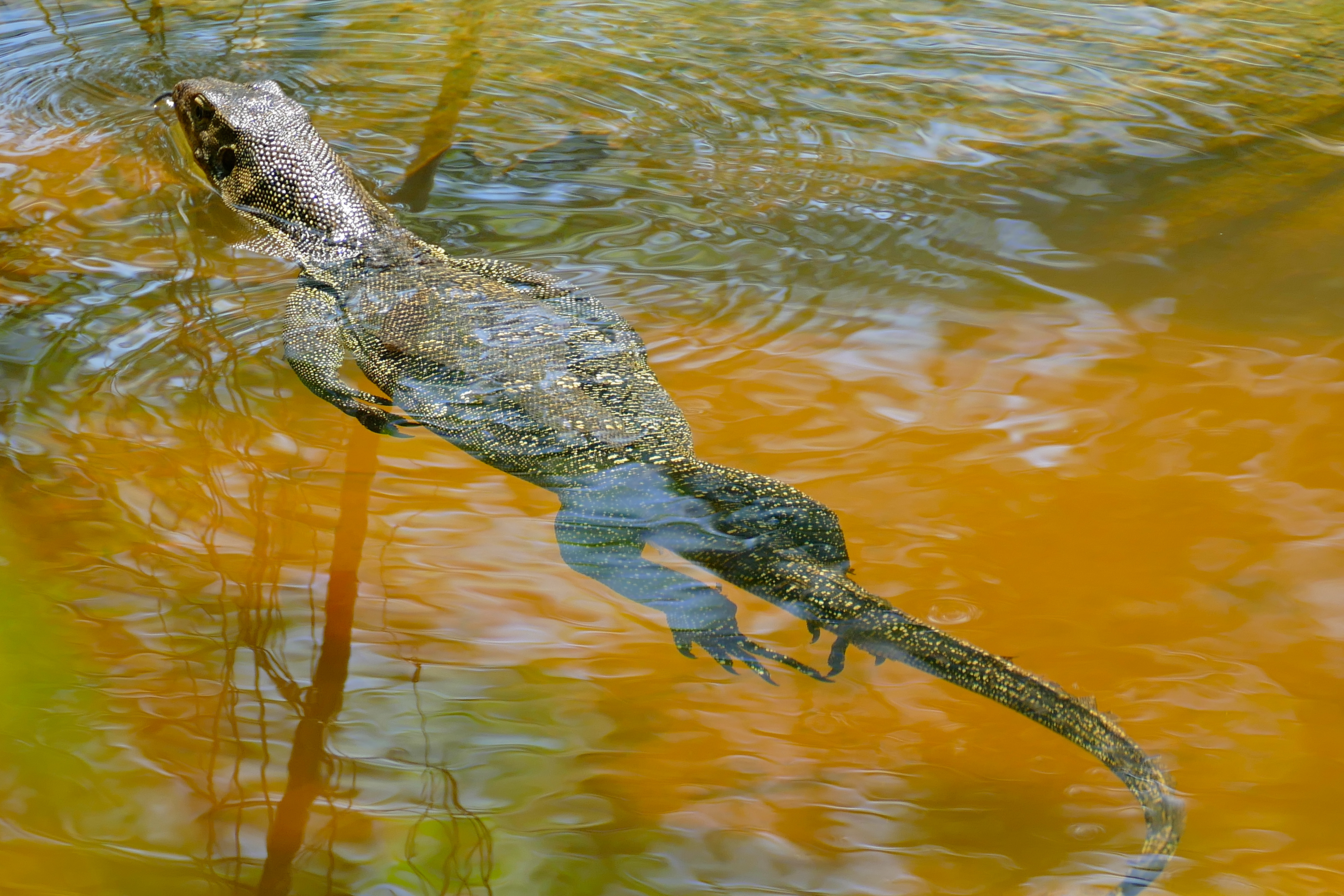 Permai Rainforest Resort, Santubong Peninsula, North of Kuching, Sarawak, MALAYSIA